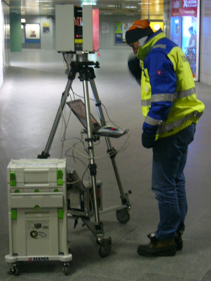 Surveyor, doing some laser scanning.